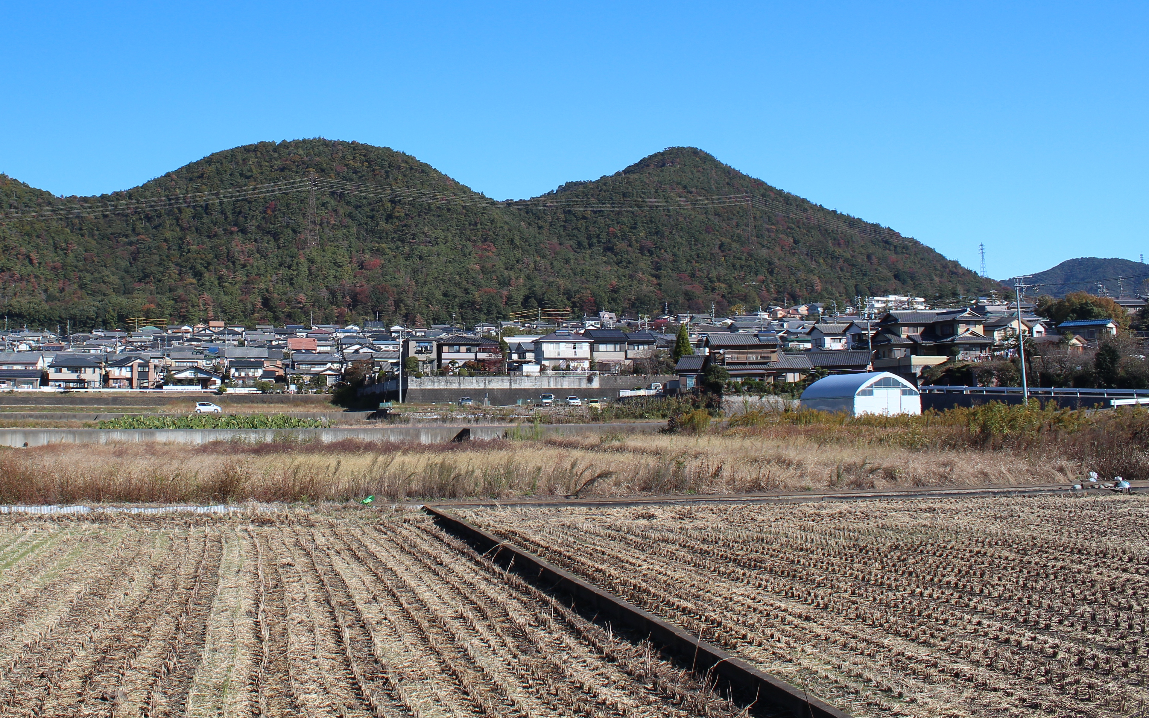 Mount Futago and Mount Yagi in Kakamigahara, Gifu Prefecture, Japan.